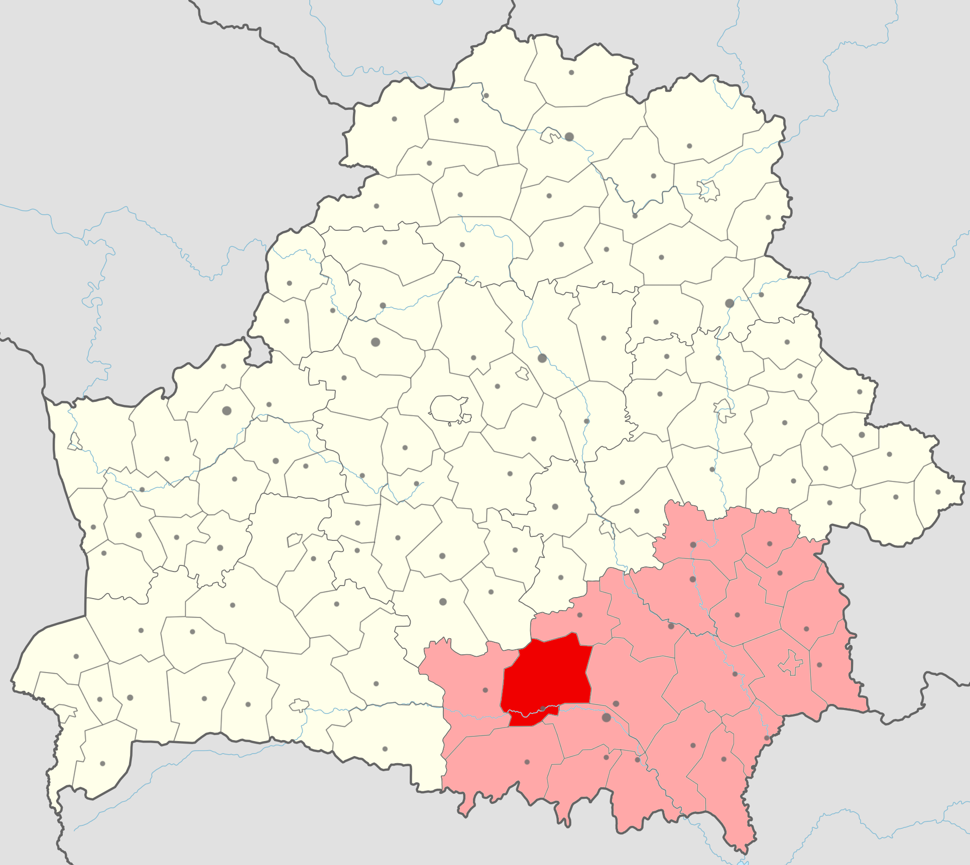 Location of Pietrykaŭski rajon (red) in Homieĺskaja voblasć (light red) in Belarus.